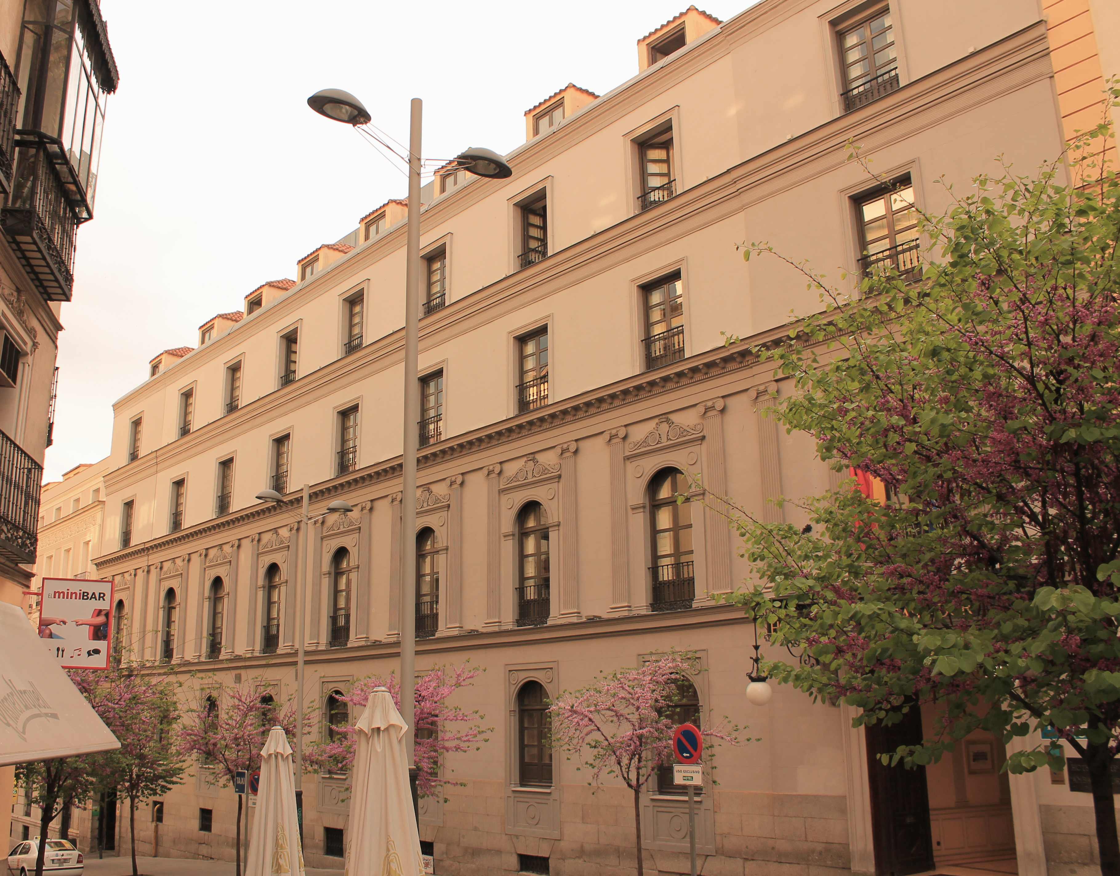 Façade of the Palace of the Duke of Granada de Ega (nowadays Hotel Tryp Ambassador) in Madrid (Spain).